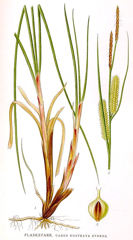 Original Description Flakstarr, Carex rostrata Stokes